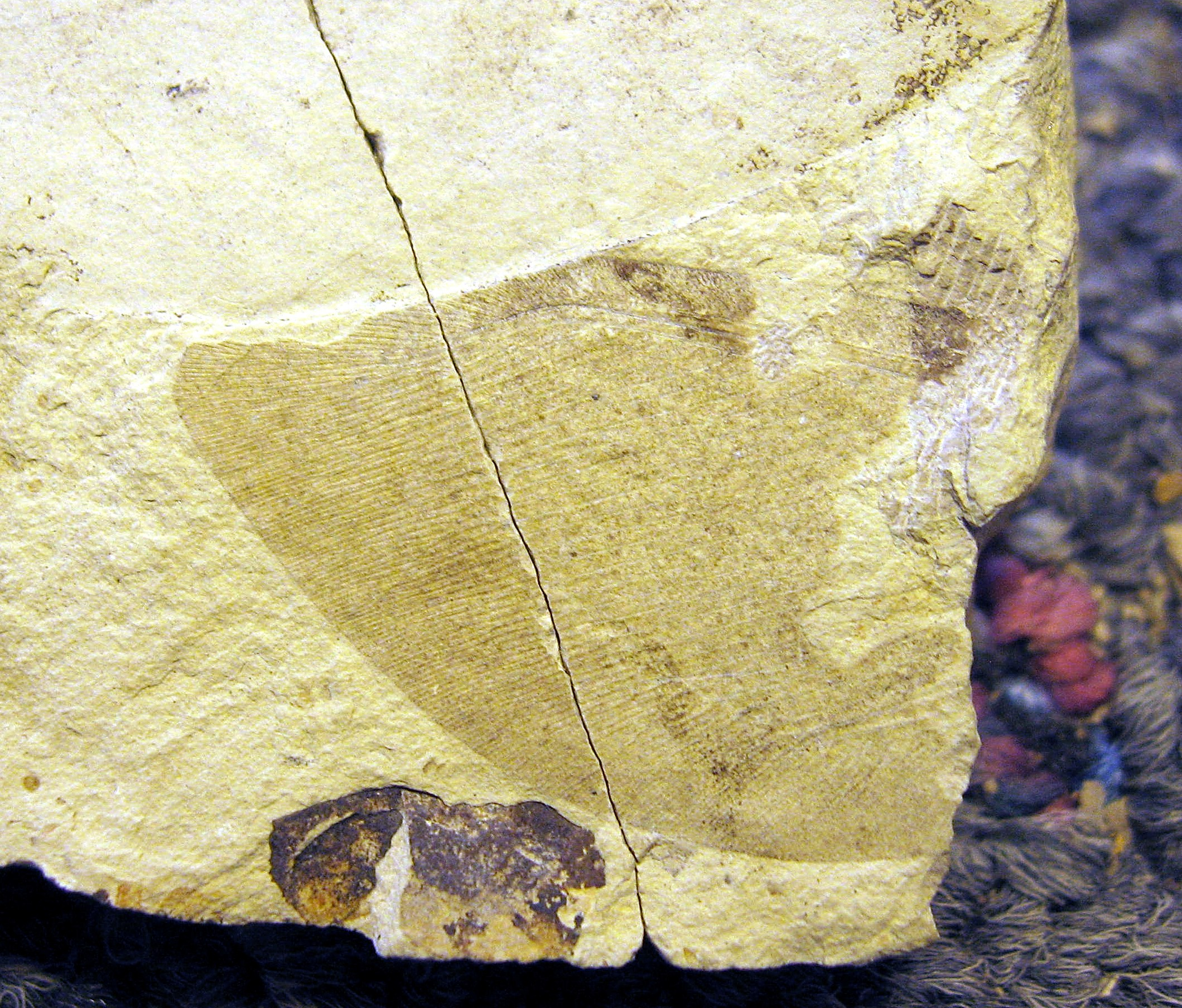 Polystoechotites lewisi Holotype Counterpart, the part is housed at St. Cloud State University. A 2.65cm wing with preserved colopatterning along the upper edge. Klondike Mountain Formation, Republic, Ferry County, Washington, USA, Eocene, Ypresian, 49million years old. Stonerose Interpretive Center Collection # SR 01-01-06